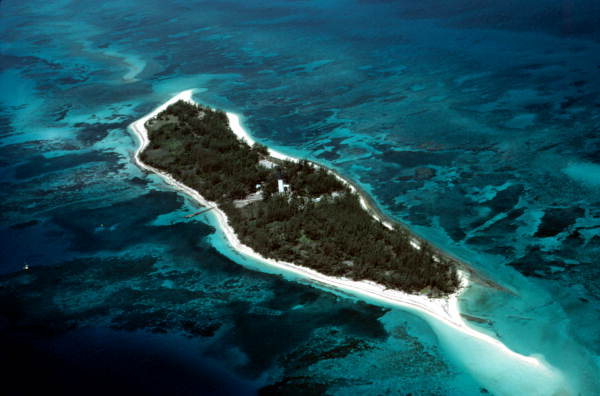 Local call number: DM0757 Title: Aerial view of Loggerhead Key, Dry Tortugas Date: July 1984 Physical descrip: 1 slide - col. Series Title: Dale M. McDonald Collection Repository: State Library and Archives of Florida, 500 S. Bronough St., Tallahassee, FL 32399-0250 USA. Contact: 850.245.6700. Persistent URL